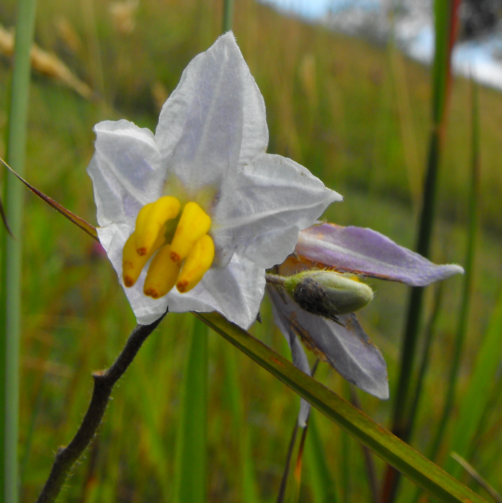 Horse Nettle - Solanum Carolinense - Nightshade Family Photo taken in Allegheny County, North Carolina.